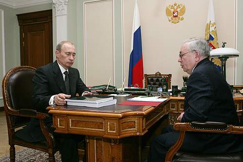 NOVO-OGARYOVO. With Vladimir Lukin, the ombudsman for human rights in the Russian Federation.